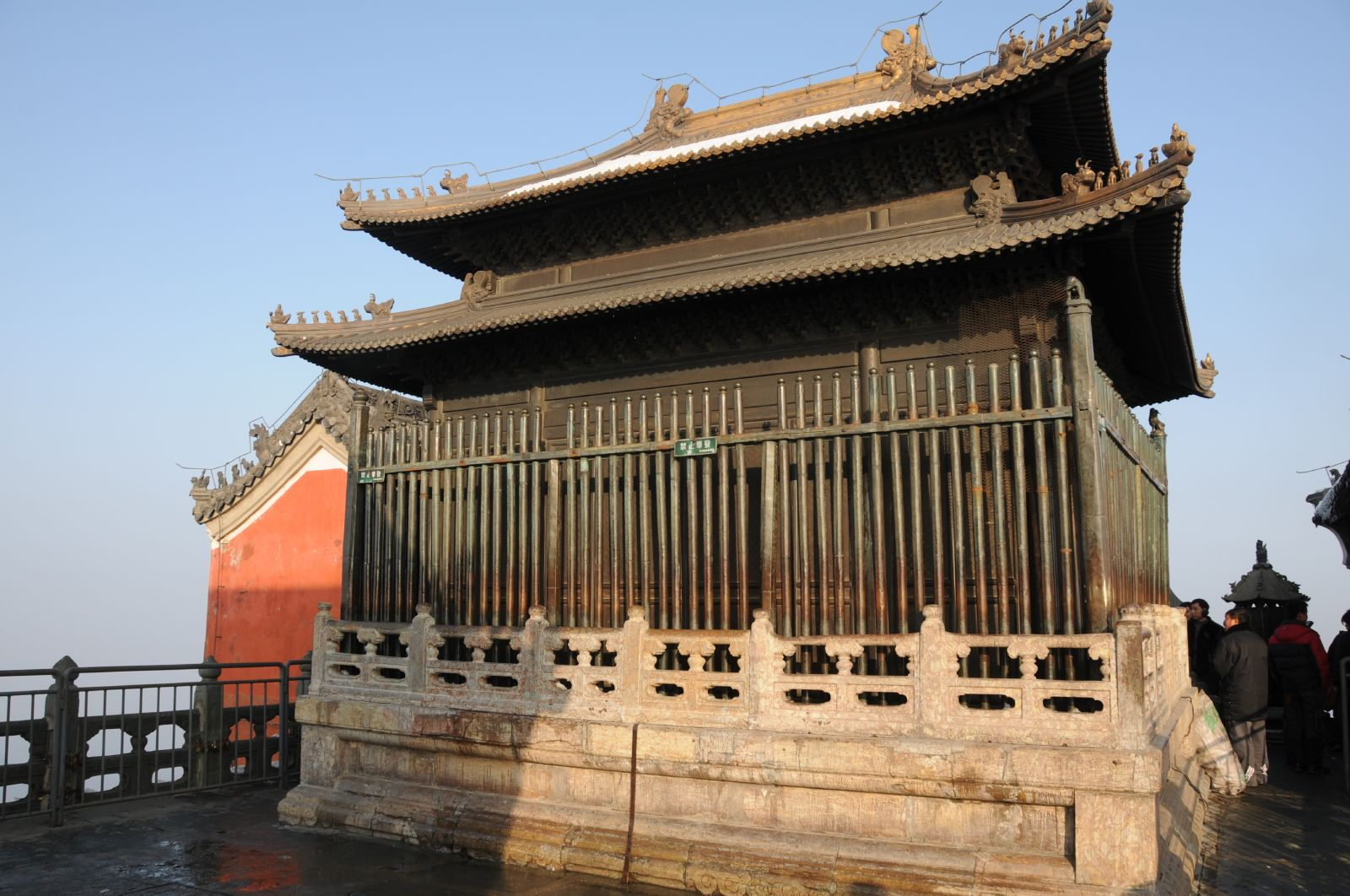 A building at the Wudang Mountains in China.